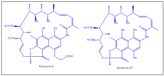 structures of rifamycin B & rifamycin SV